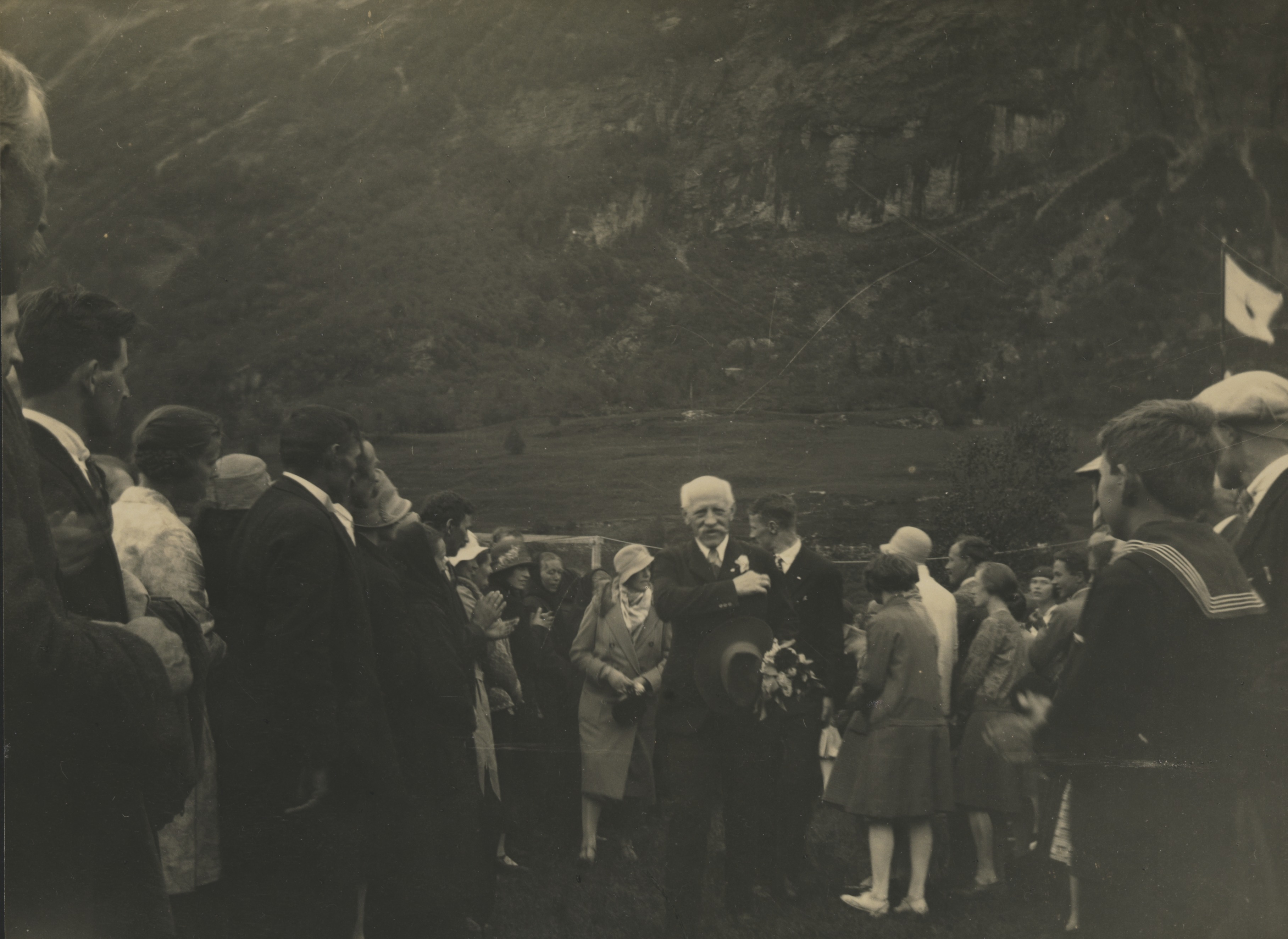 Fridtjof Nansen on a lecturing tour for Fedrelandslaget. The trip, which was a combined holiday, was on board the «Stella Polaris», from Bergen to Nordkapp.